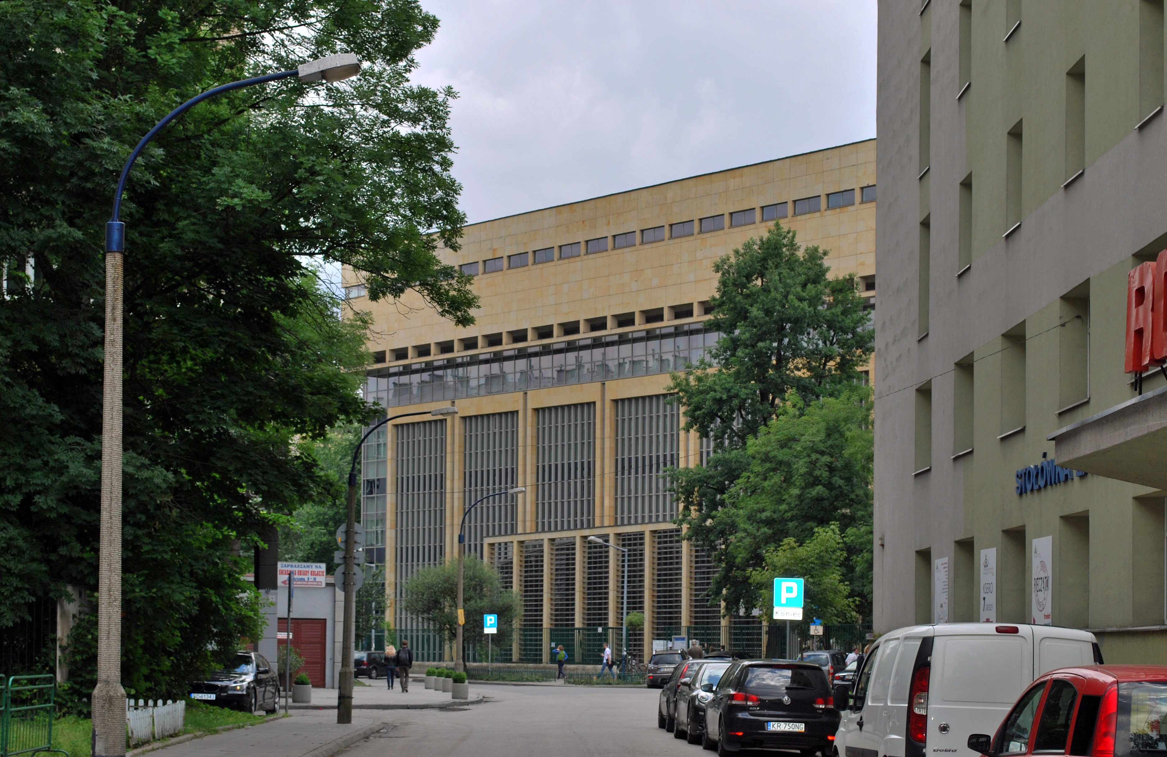 Jagiellonian Library (New building), Oleandry street, Kraków, Poland